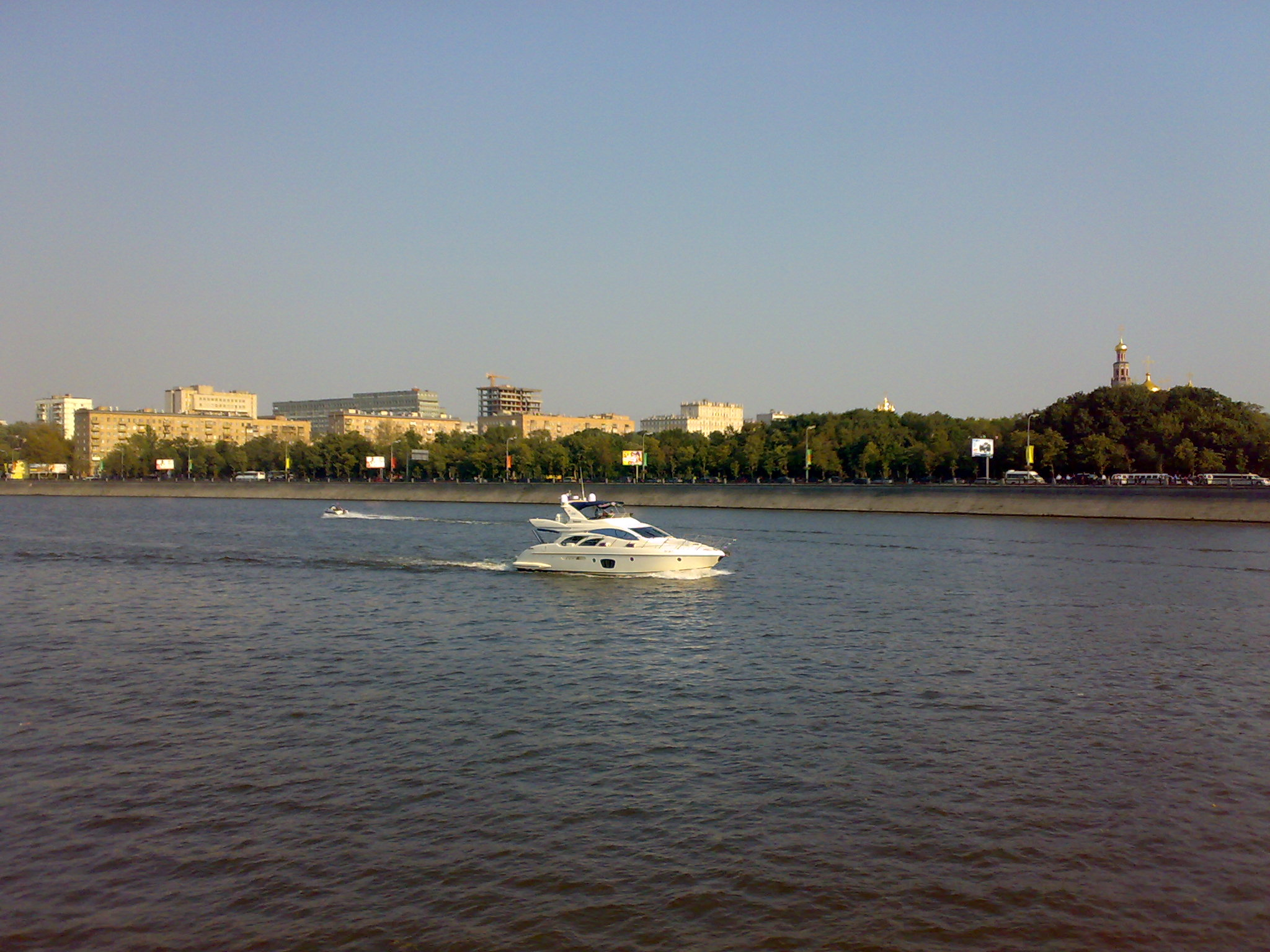 took using mobile phone on 7 September, 2008, in Moscow. River Moskva with Novodevichy Convent in the distance.